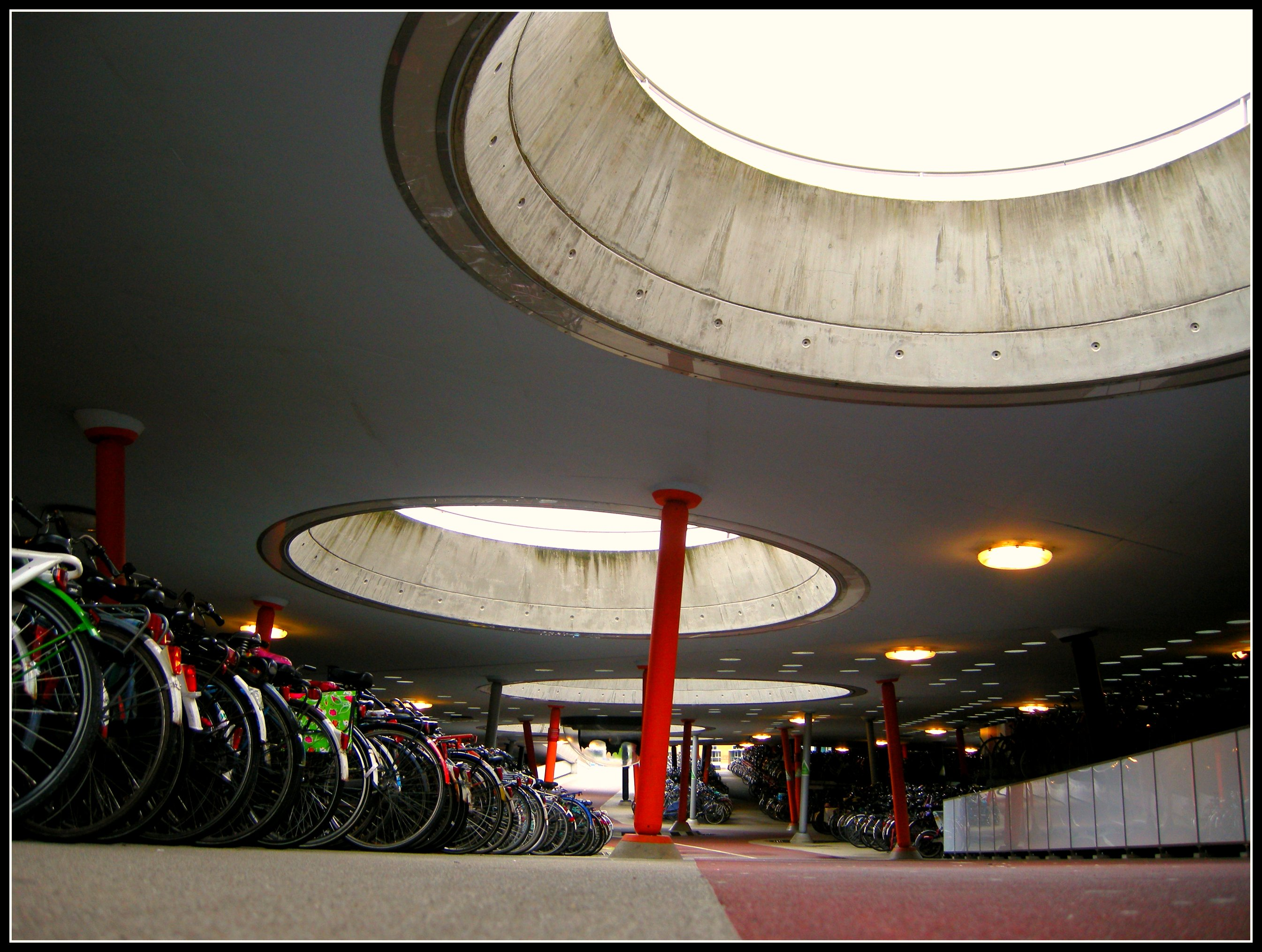 Main Railway Station, Groningen NL.